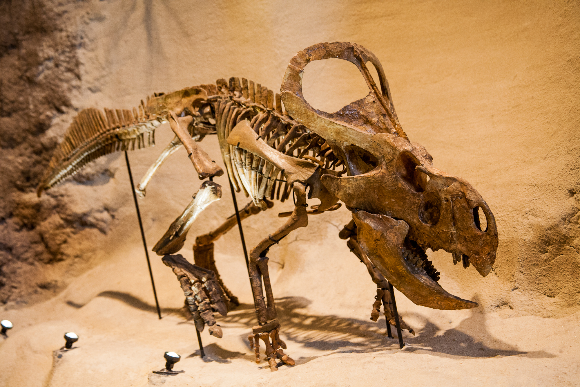 During my obligatory family visit back to western PA in October 2011 we were looking for things to do on a rainy day. I love museums but my siblings are not really into art. I haven't been to the Carnegie Museum of Art in over 30 years, so I dragged them along, expecting the worst, but they actually enjoyed it. It's really a great museum - lovely collection and exhibitions. The Museum of Natural History is attached so you get two museum for the price of one. I made very meticulous notes of all the shots I took but for the life of me I can't find my notebook. If you happen to know the name of the painting, sculpture, or display and the artist, please let me know - I feel like a bonehead for losing my notes. Don't get old and senile!